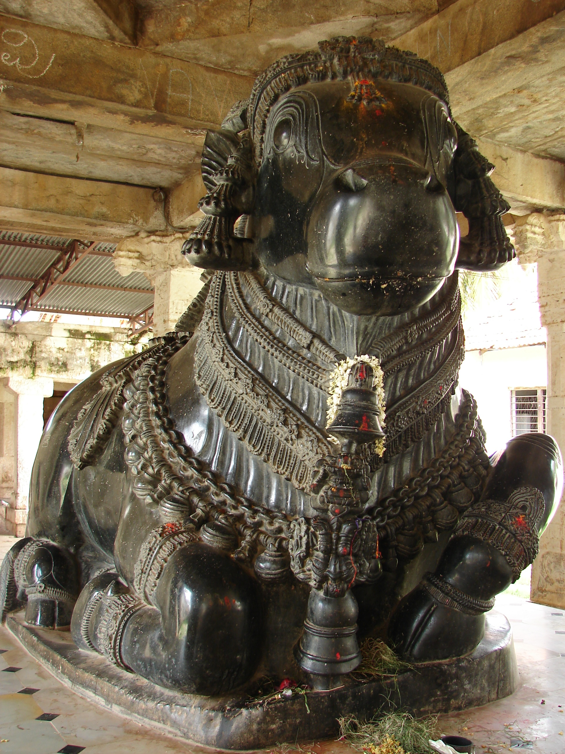 This photograph was taken by me at the Gangadeshvara temple (also Gangadeshwara) in Turvekere, Tumkur district, Karnataka state, India. This sculpture, which shows influences of the Hoysala architectural style is made with soap stone (Chloritic Schist).